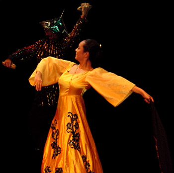 Jota Zamboanguena Chavacano dance